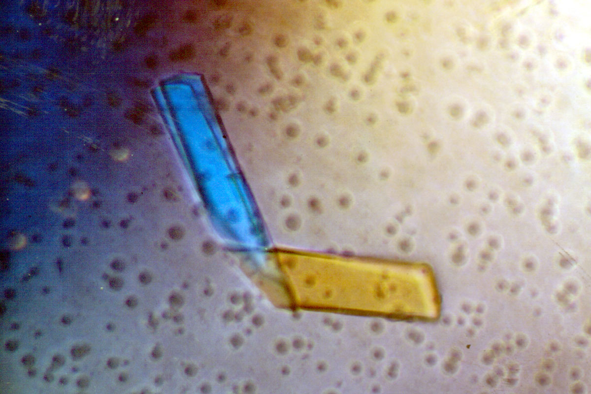 A crystal of Bence Jones protein created for X-ray crystallography, which can reveal detailed, three-dimensional protein structures.